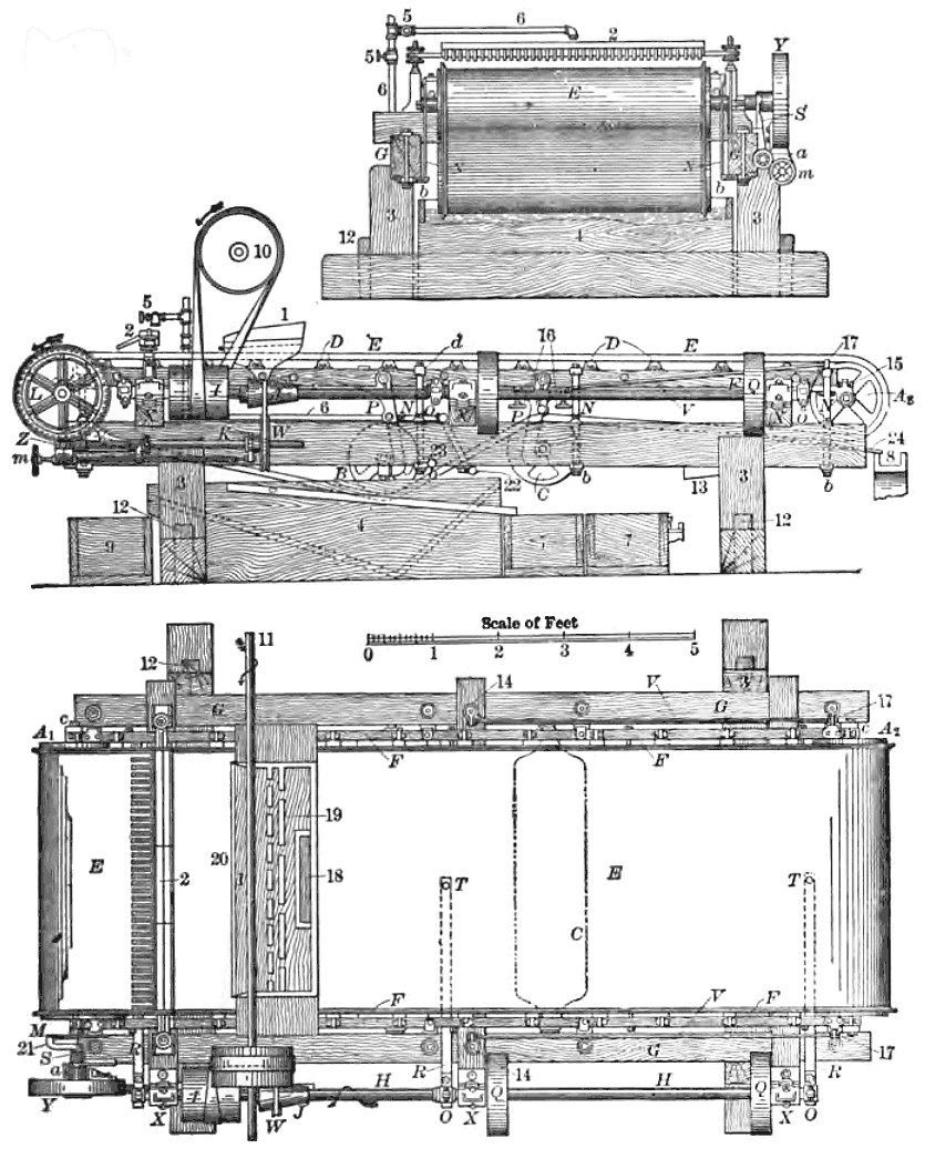 Diagrams of end, side and overhead views of a Frue Vanner, a machine invented in 1874 and used in the concentration of metalliferous ores.